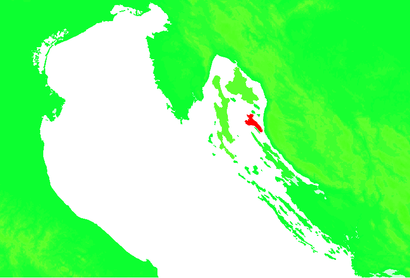 Island of Croatia Croatia - Rab.PNG